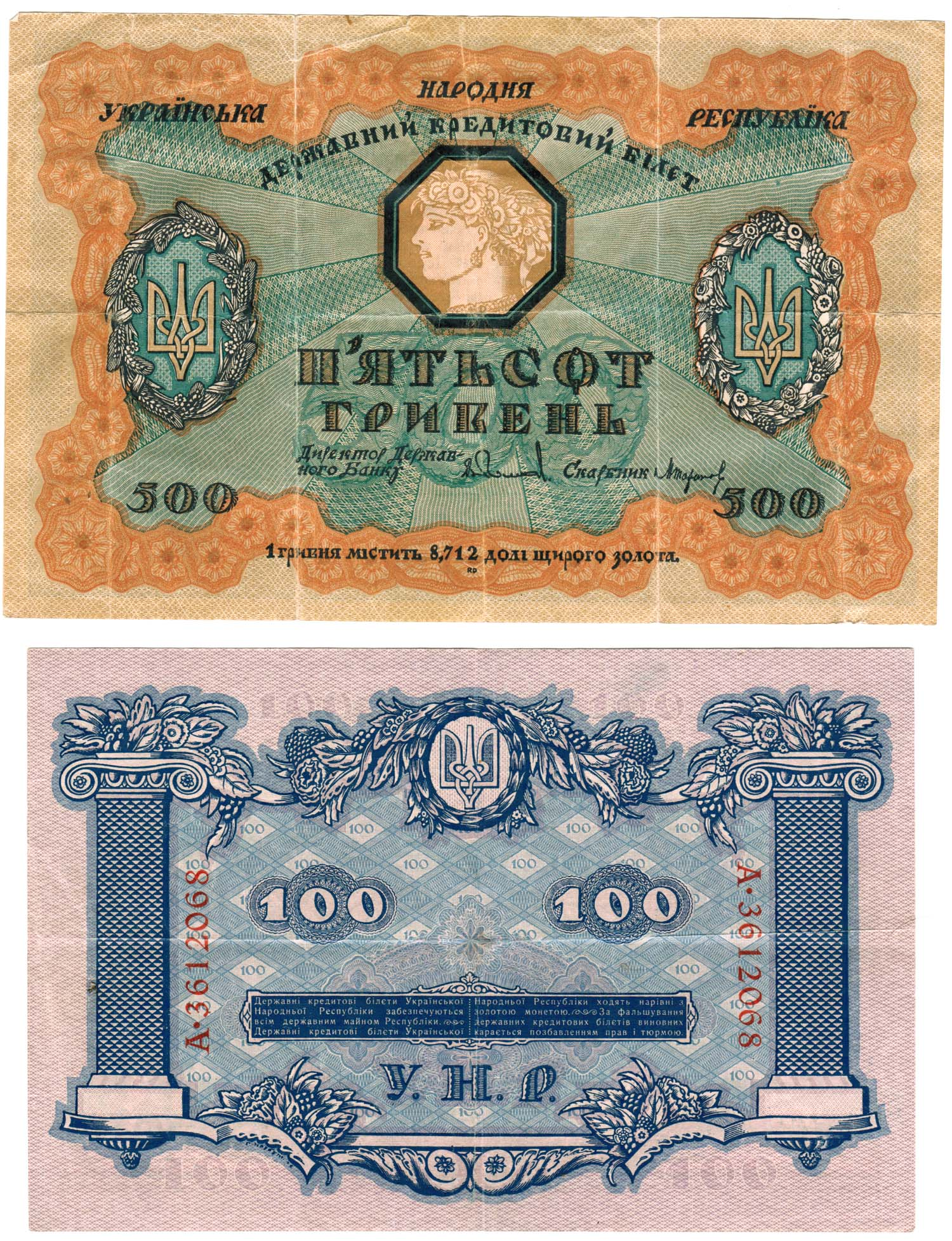 Ukrainian currency "HRYVNIA" from the year of 1918. Two different banknotes.